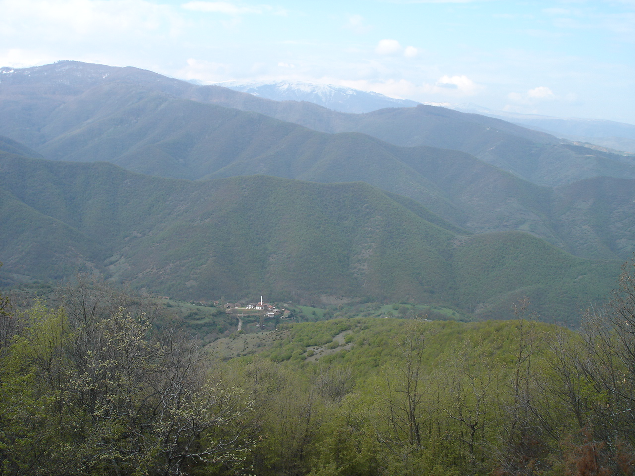 village of Crvena Voda on Kitka and Karadzica mountains, Macedonia